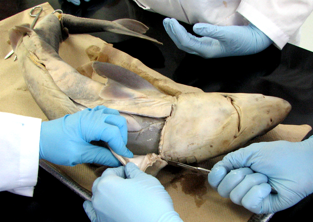 A Spiny Dogfish being dissected; the liver is visible and appears gray.